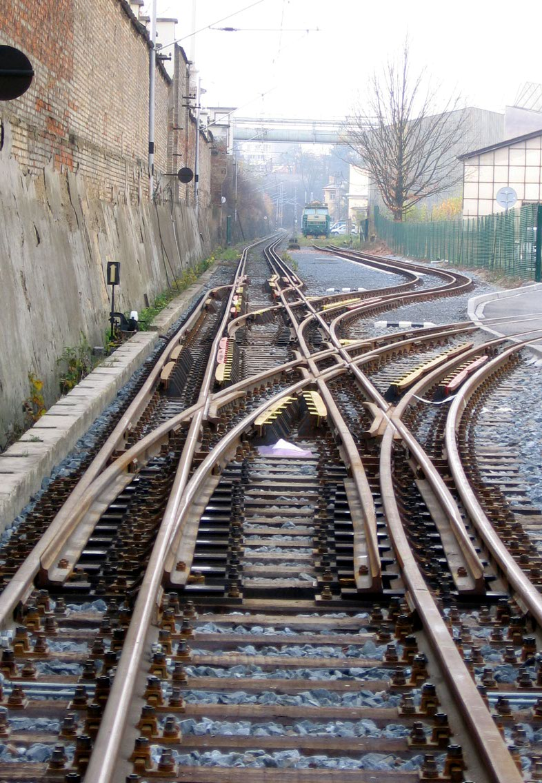 Mixed gauge test track for 1000, 1435 and 1524 mm gauge in Škoda Plzeň